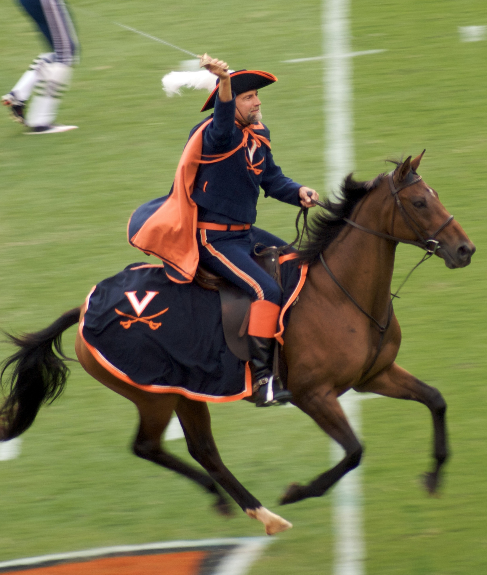 Cav Man, the "mascot" of Cavaliers of the University of Virginia, USA, canters over the football field before of the Cavaliers against Texas Christian University (TCU)